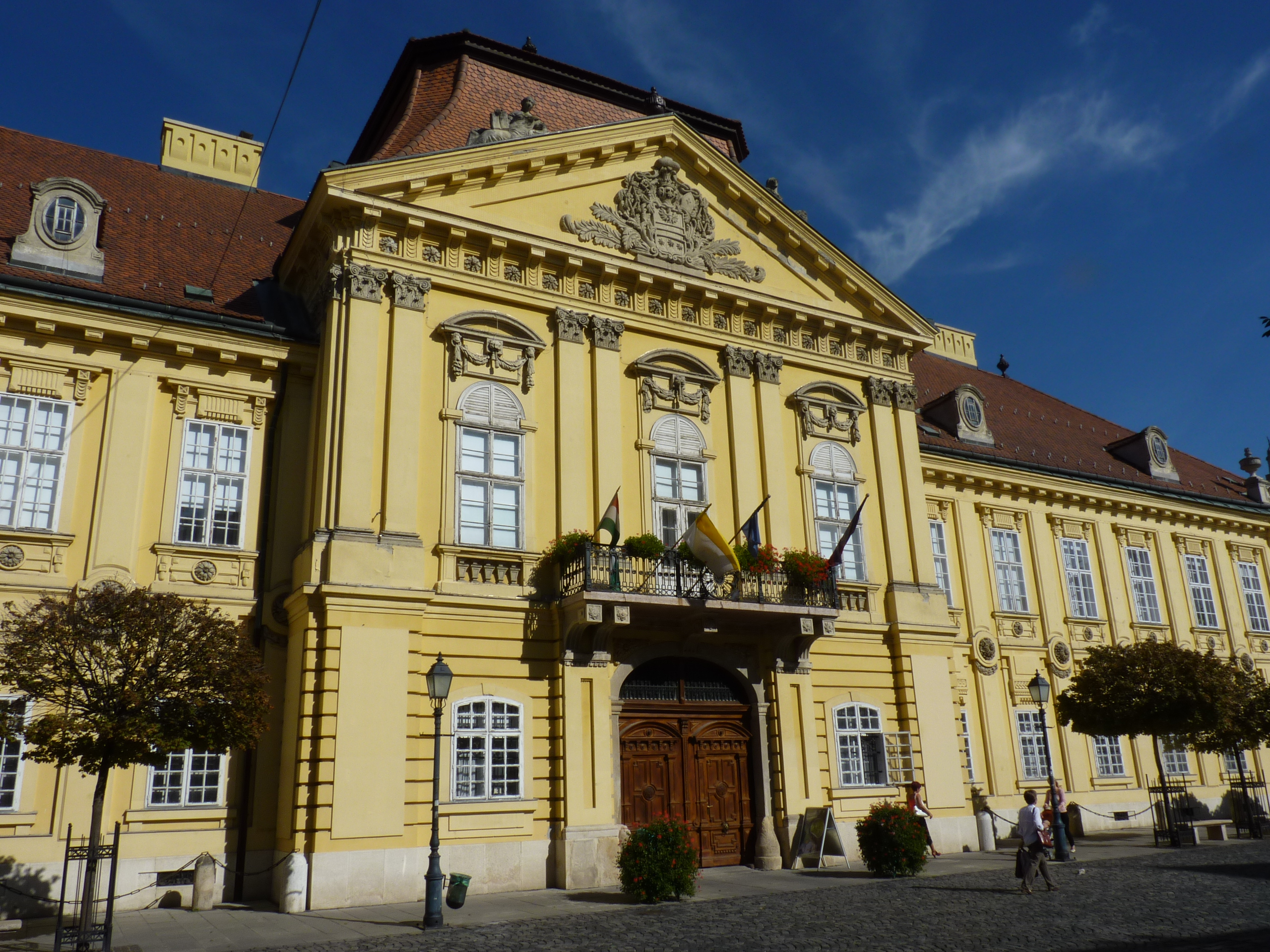 Bishop's Palace, Székesfehérvár